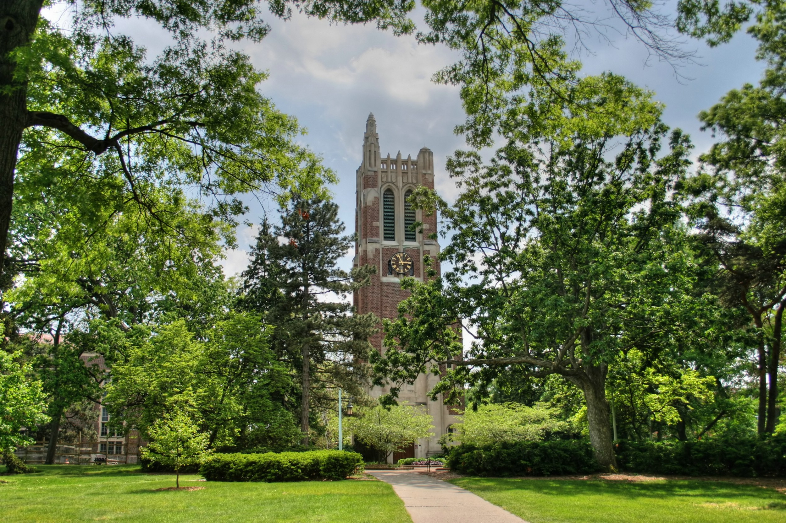 A photograph of the Beaumont Tower located on the Michigan State University campus in East Lansing, Michigan. This photograph is one of a series taken for Wikipedia by the submitter on May 28th, 2006 between the hours of 3pm and 6pm.